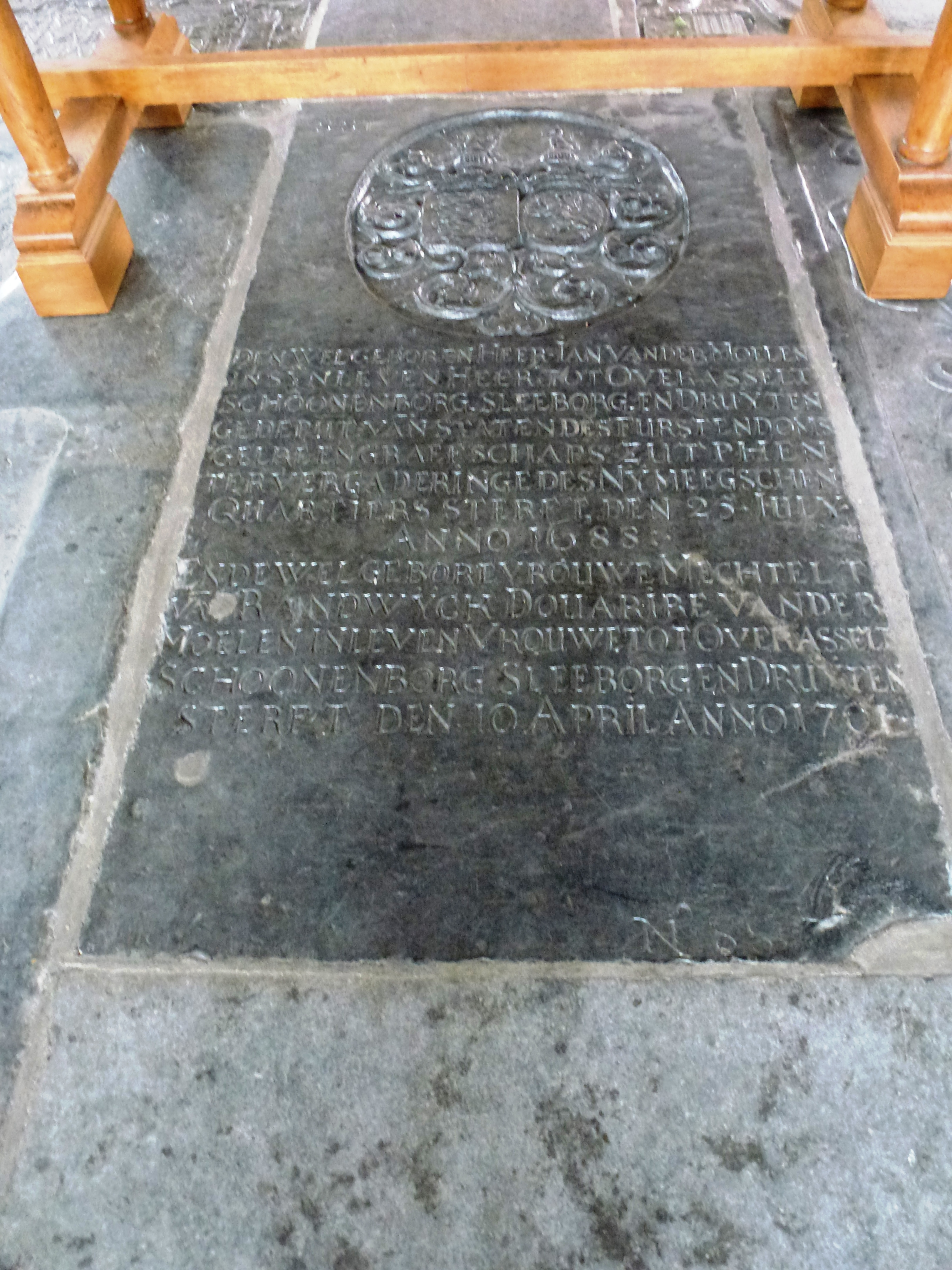 Grafstenen St Stevenskerk (025) Heren van Overasselt etc.